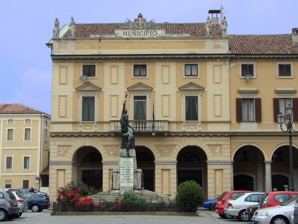 Townhall of Garlasco